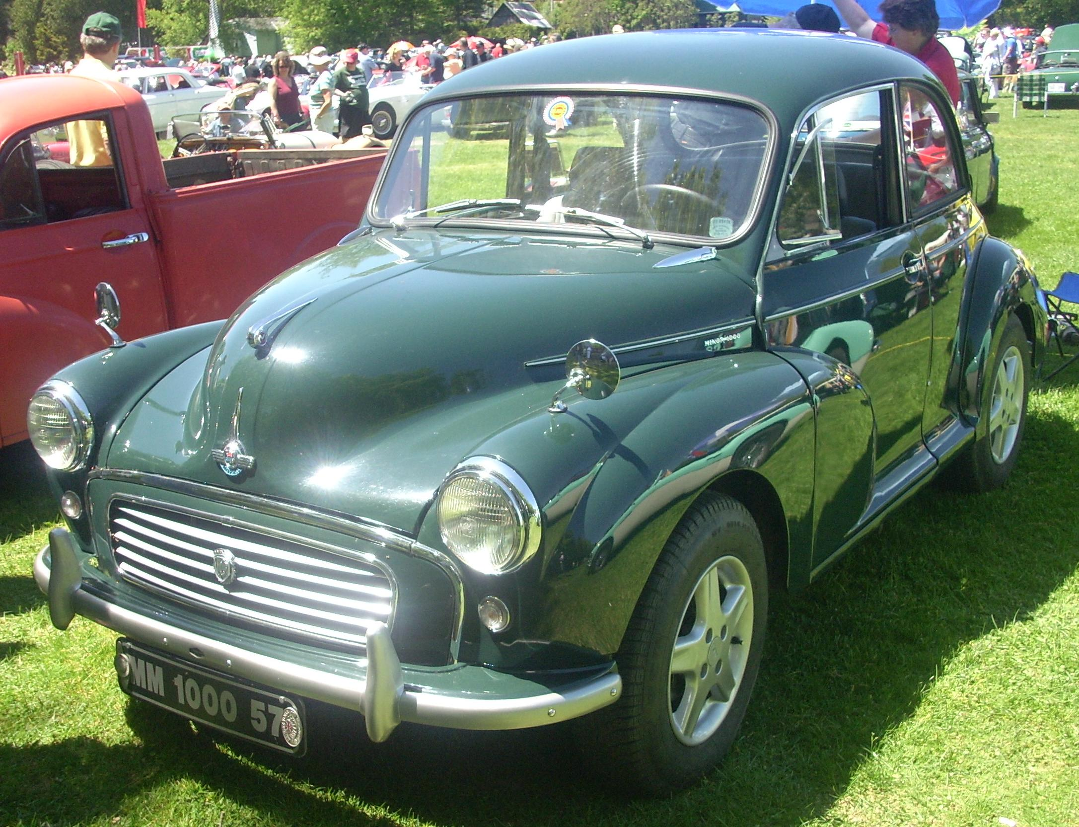 1957 Morris Minor photographed at the 2008 Hudson British Car Show.